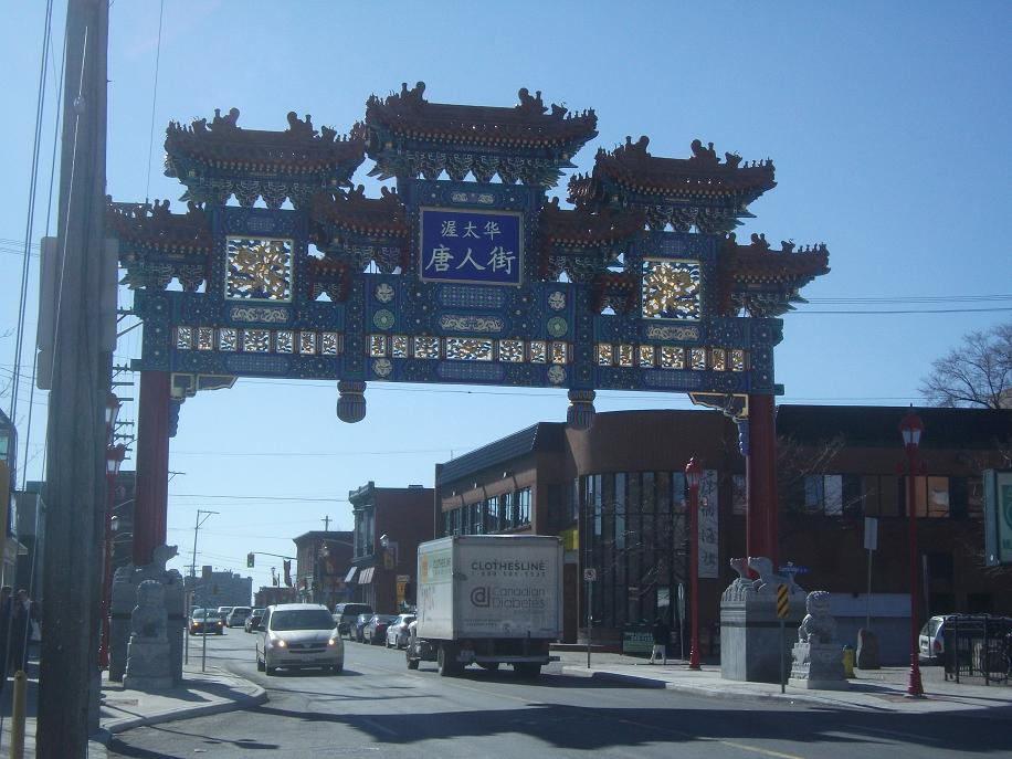 Chinatown Gate, Ottawa